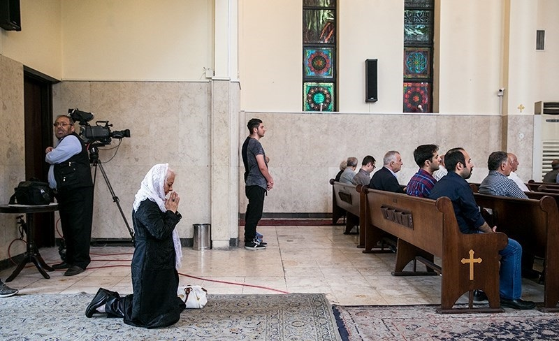 Armenian Genocide Remembrance Day in Saint Sarkis Cathedral, Tehran